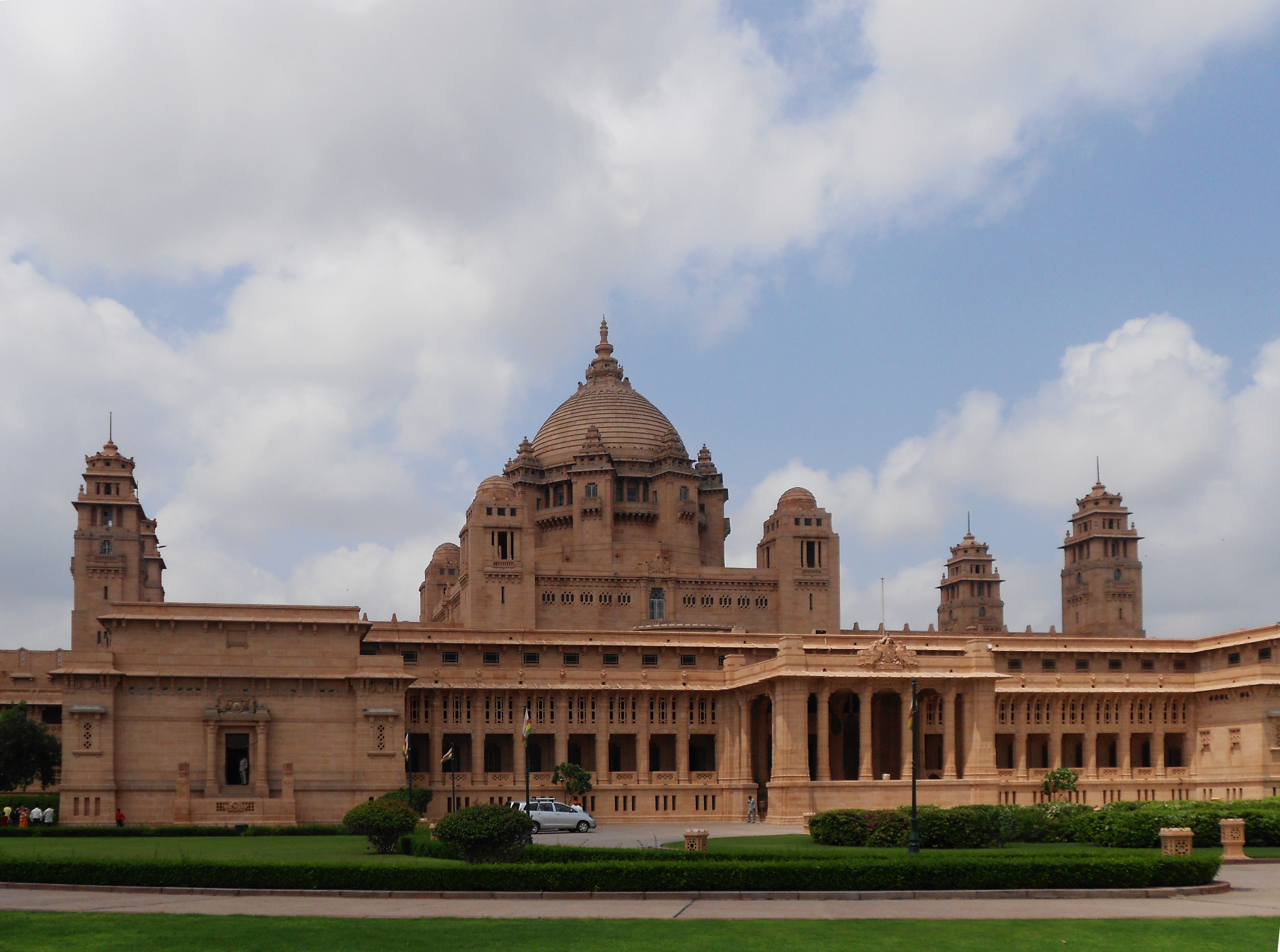 Umaid Bhawan palace, Jodhpur.